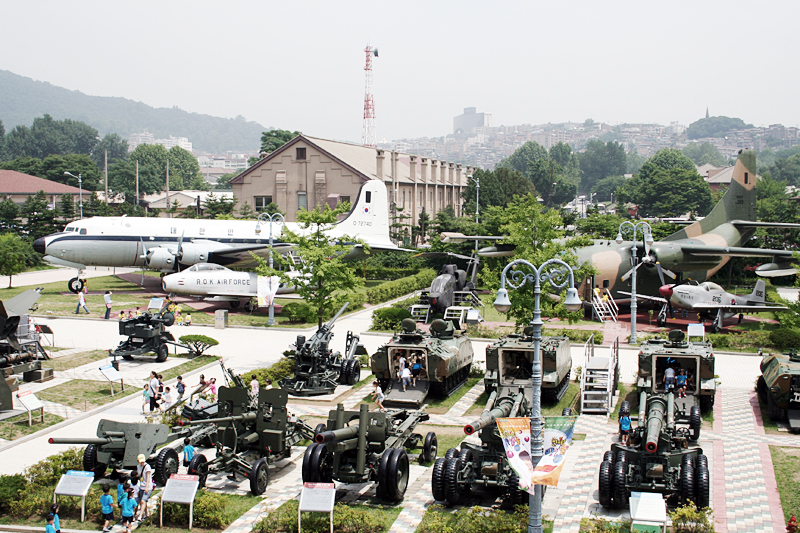 Outdoor Exhibition. @War Memorial of Korea